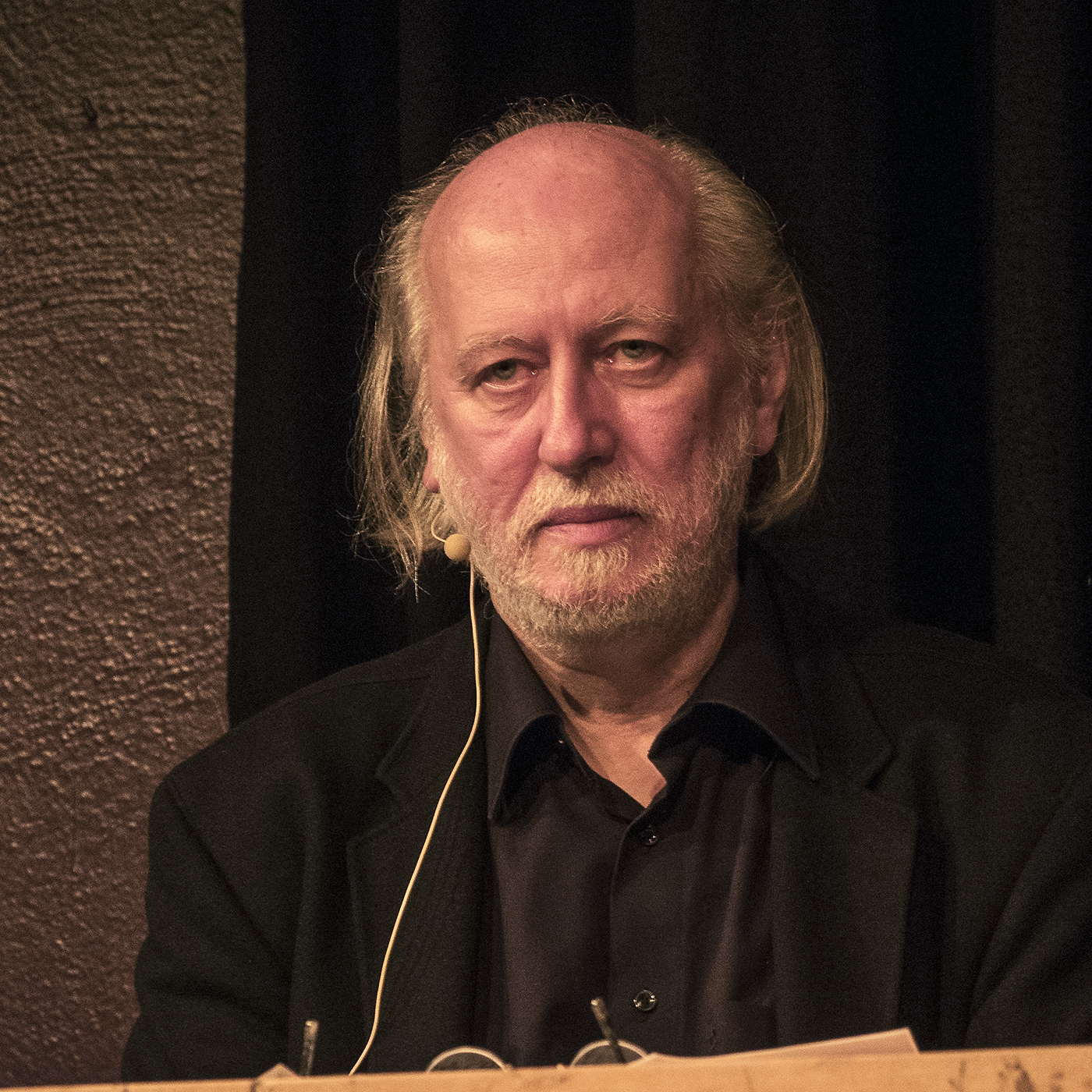 Writer Lázló Krasznahorkai at Stadtgarten Köln/Cologne, Germany